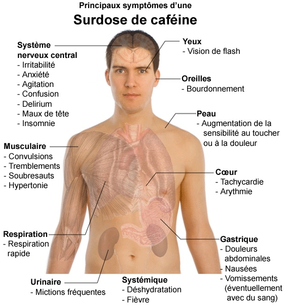 Main symptoms of Caffeine overdose (See also Wikipedia:Caffeine#Caffeine_intoxication). References: *Caffeine (Systemic). MedlinePlus (2000-05-25). Archived from the original on 2007-02-23. Retrieved on 2006-08-12. Model: Mikael Häggström. To discuss image, please see Template talk:Häggström diagrams